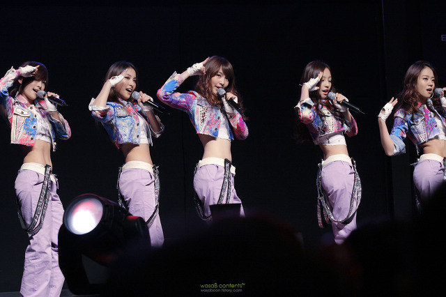 Kara at EVER Starleague 2009.